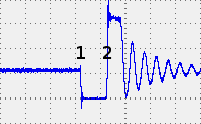 Voltage on boost converter inductor. 1 - switch has been closed, voltage dropped to 0, current (not shown) increased. 2 - switch has been opened, current dropped, voltage rised.